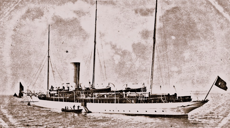 GIRALDA- Spanish Royal yacht in Italy